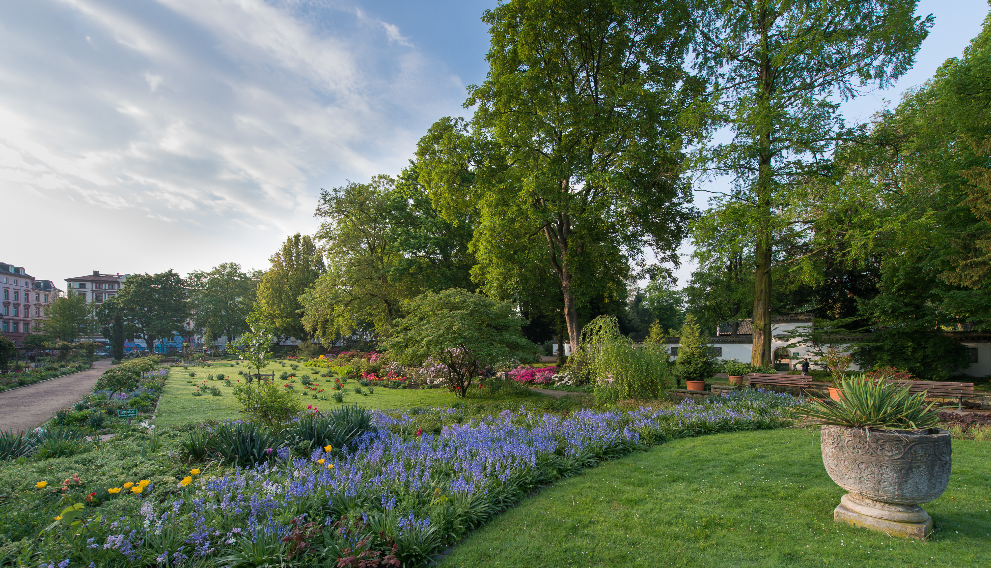 Frankfurt am Main, Bethmann Park. Public park and cultural monument of the city. Former part of the private property Friedberger Landstraße 8.